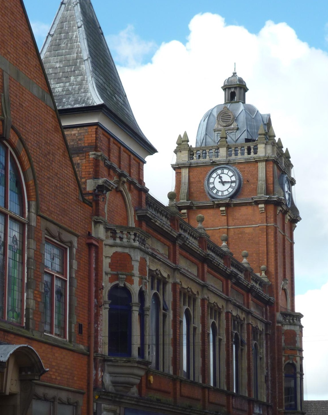 New Central Buildings, Long Eaton, Derbyshire